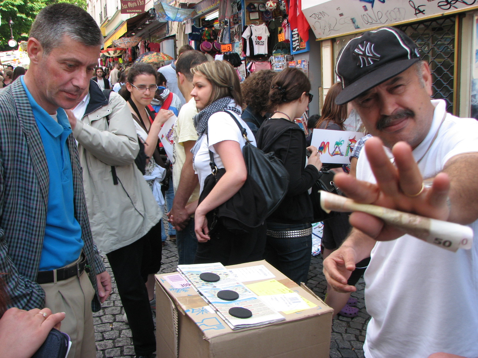 A photo of a gambling stand in Paris.